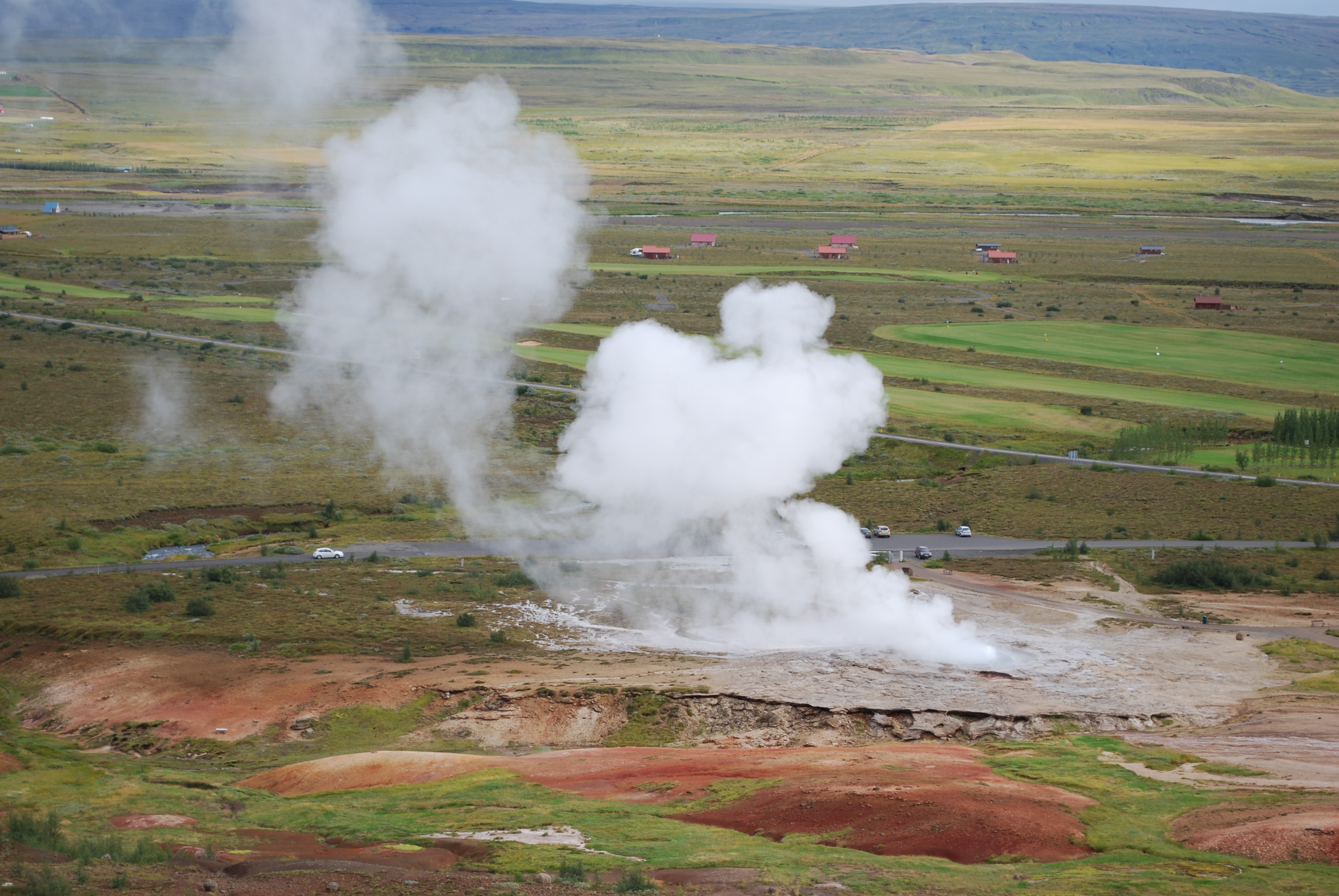 Eruption of Great Geysir, Iceland